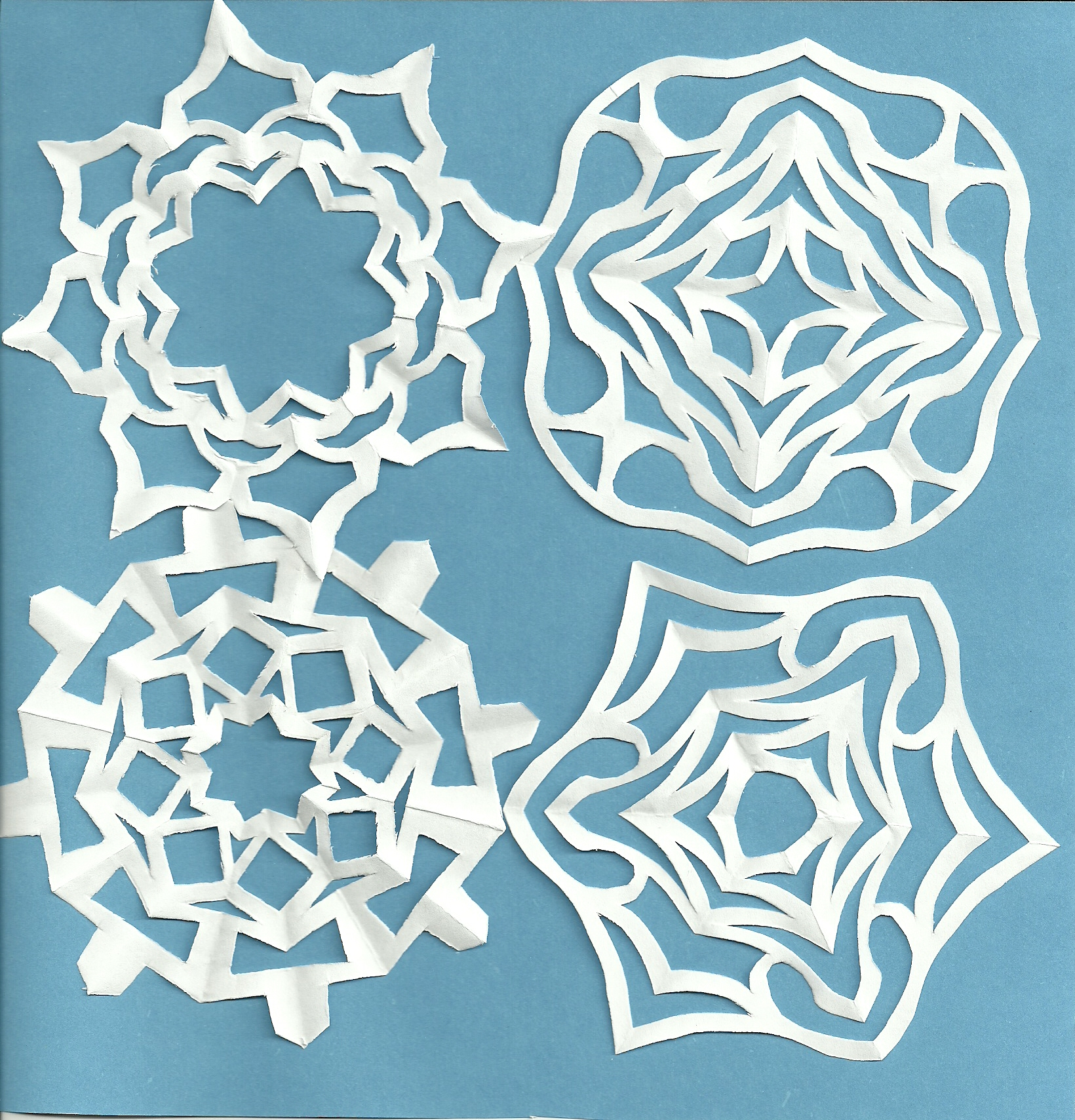 4 paper snowflakes cut out as an example